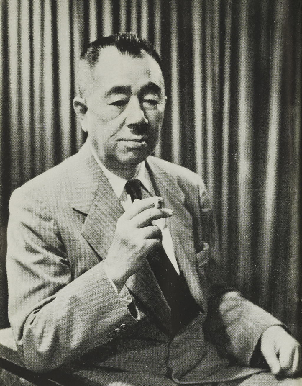 Portrait of Komai Tokuzo (駒井徳三, 1885 – 1961)